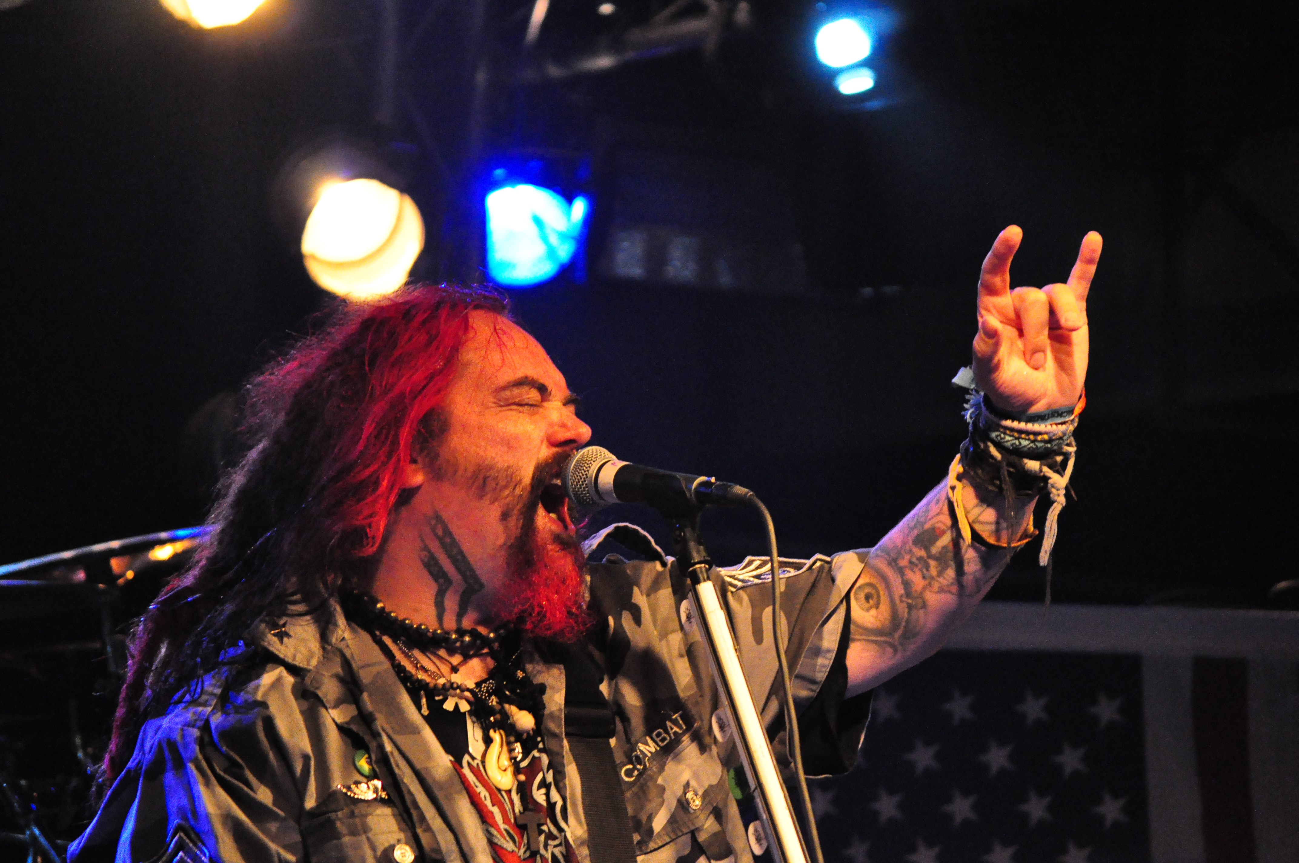 Soulfly in Rostock 2012